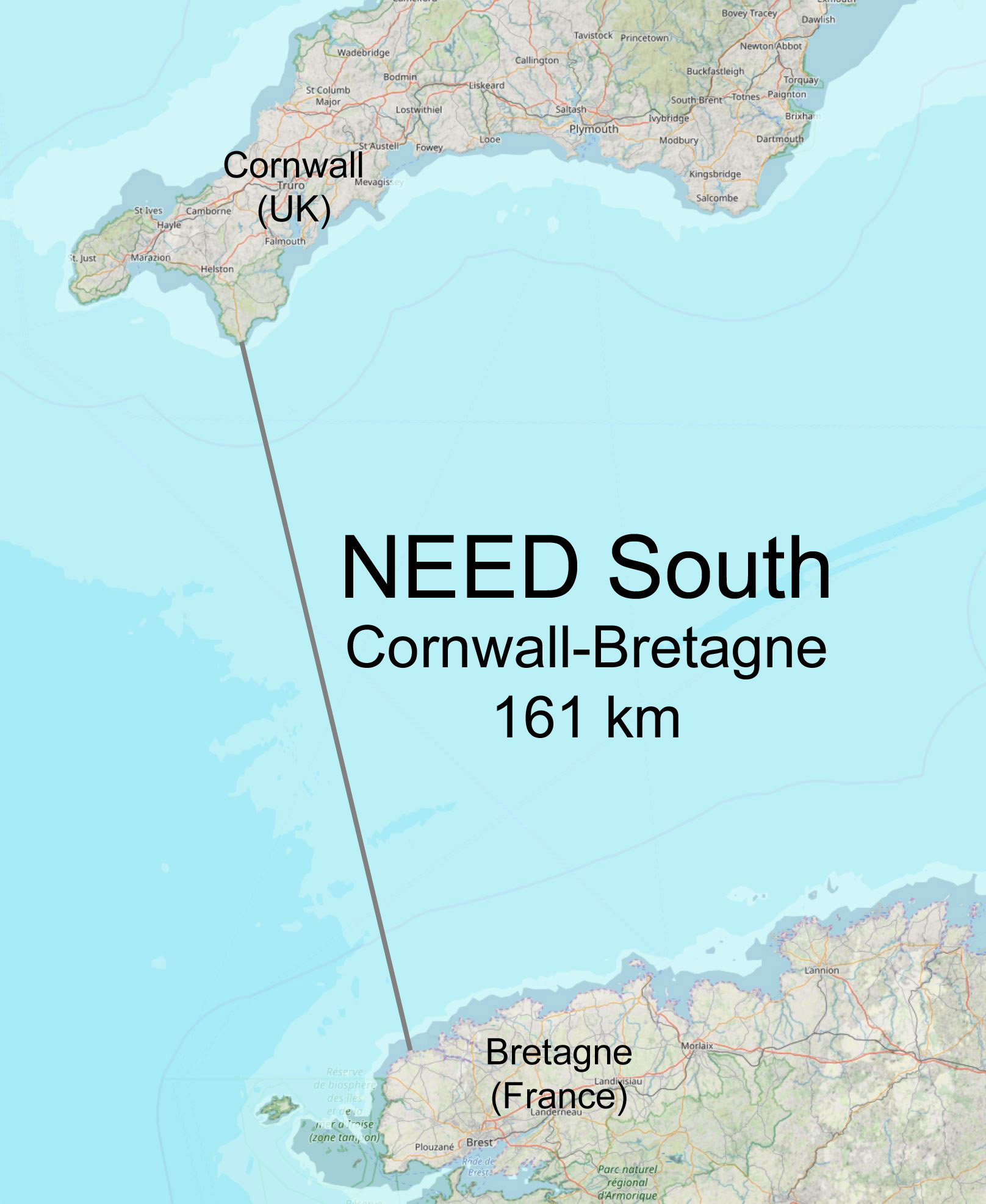 The prospected North European Enclosure Dam (NEED) South - England to France Section